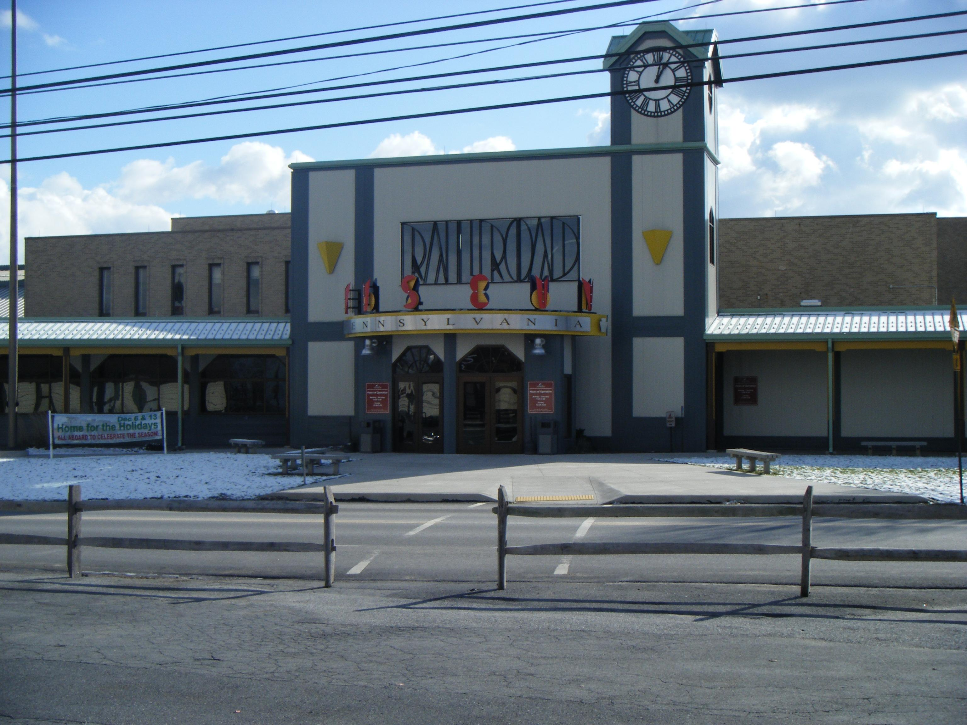 Entrance to the Railroad Museum of Pennsylvania in Strasburg, Pennsylvania.